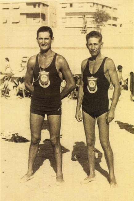 A photo of Shlomo Alhasuf, a carpenter and a Deaf lifeguard who invented the Hasake. Shlomo is shot on the left. On the right, stands David Erlich, a hearing lifeguard. Tel Aviv beach, Israel.